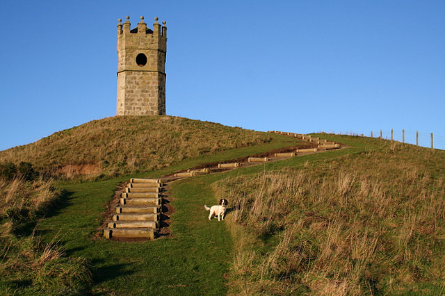 Doocot by Craigiefold.